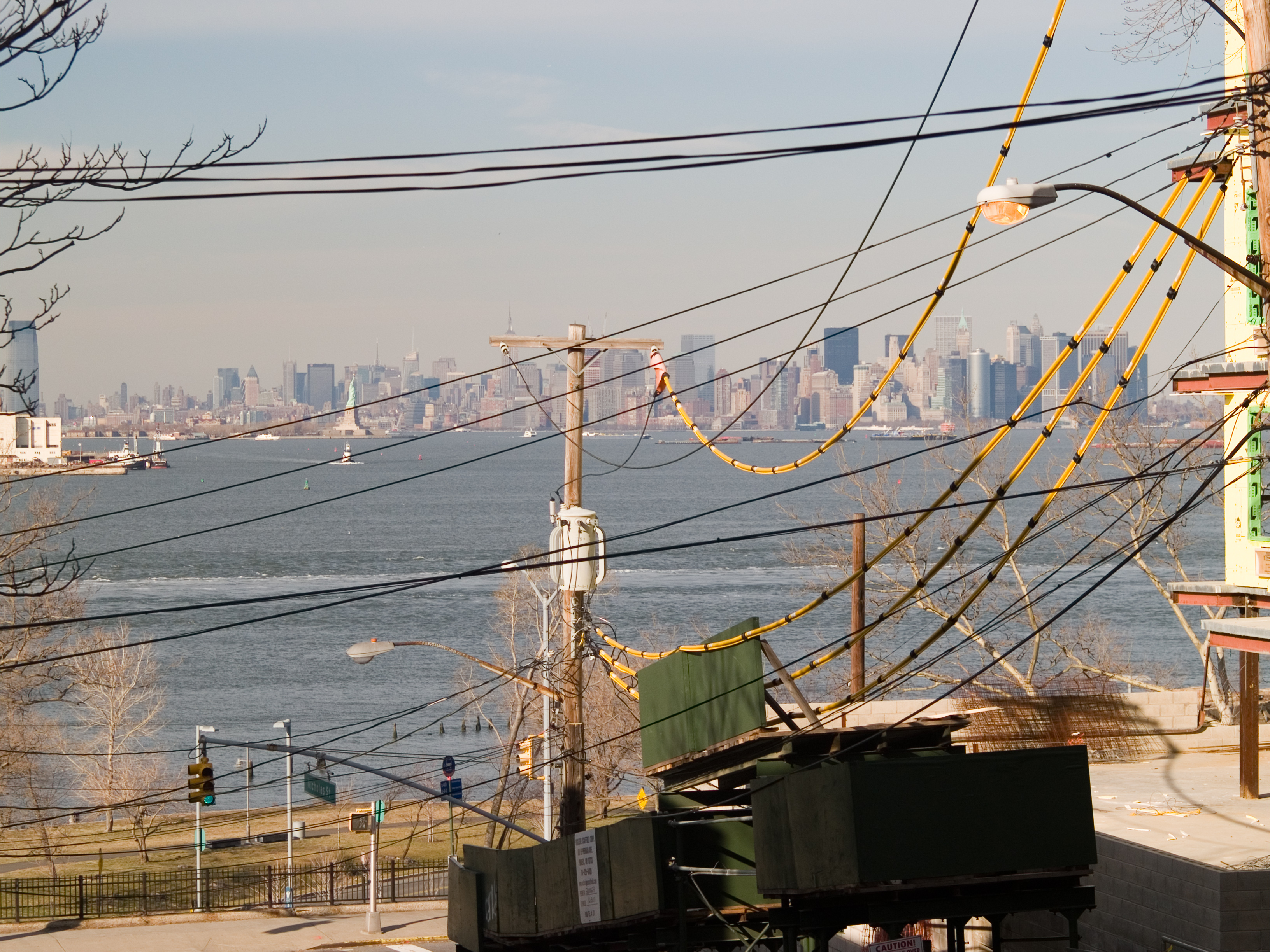 The Skyline of downtown Manhattan, seen from Staten Island